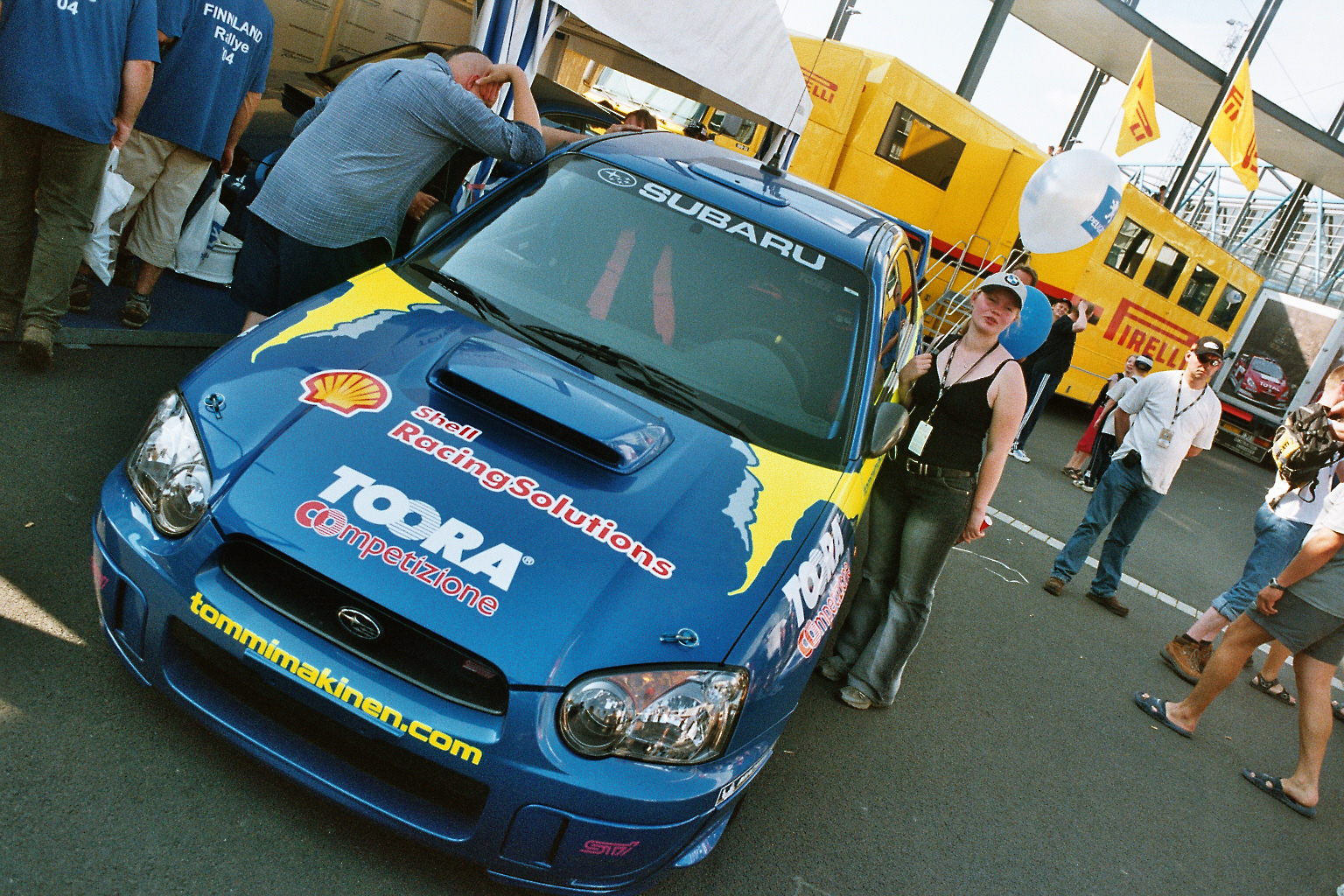 The service park of the 2004 Rally Finland on thursday.